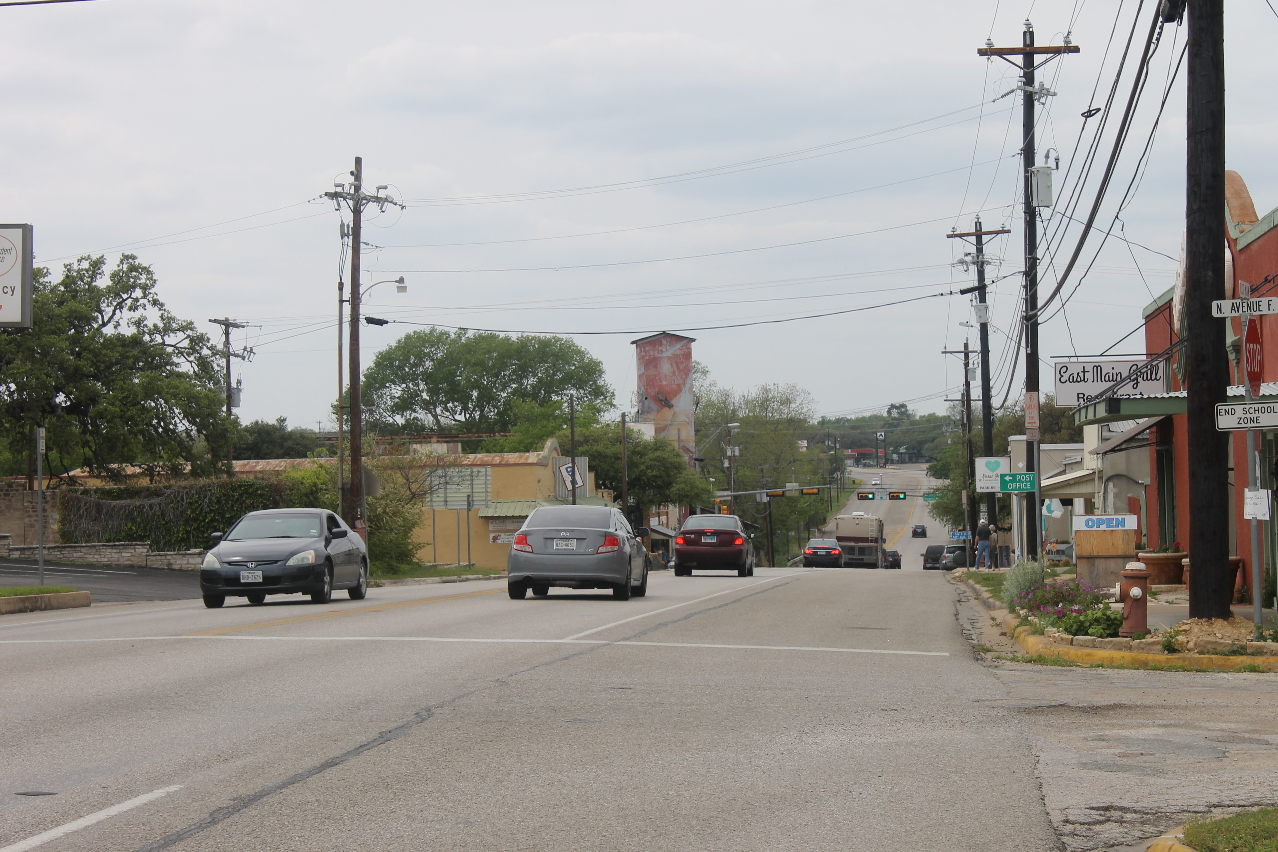 I took photo of downtown Johnson City on Hwy. 290, with Canon camera.